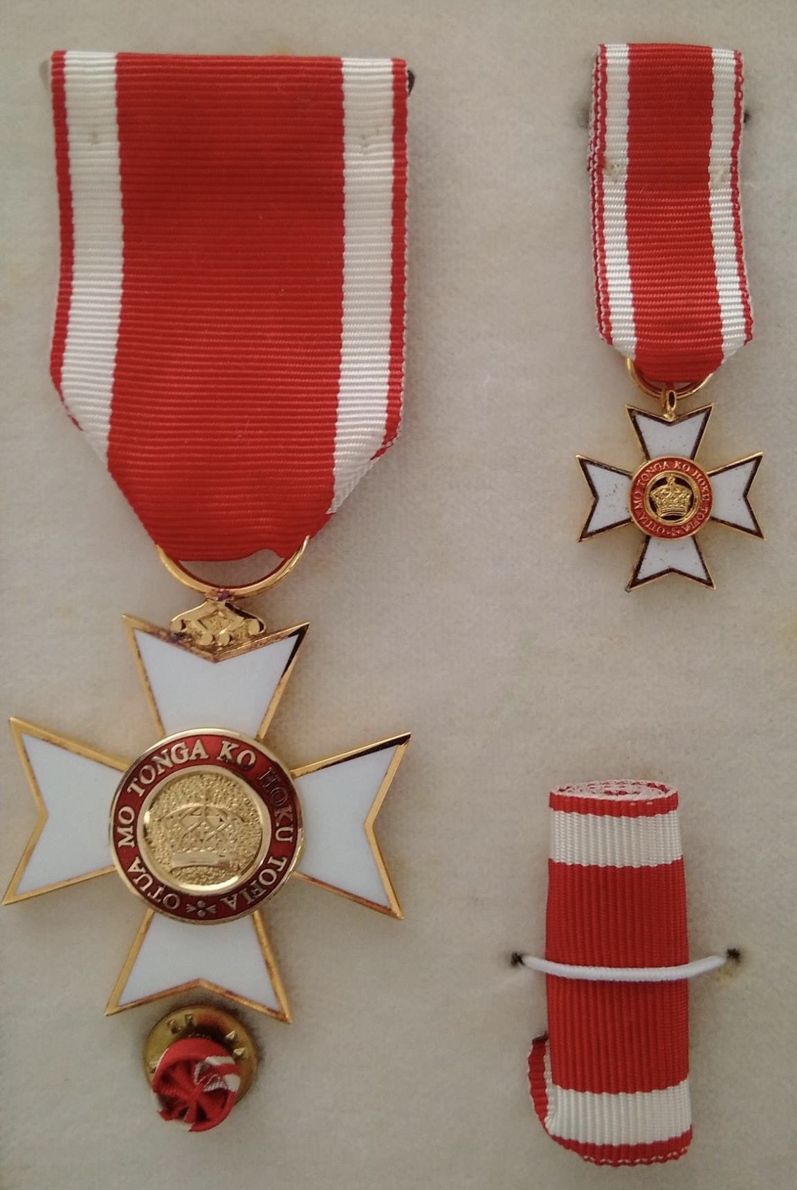 Insignia of the Grade of a Member of the Order of the Crown